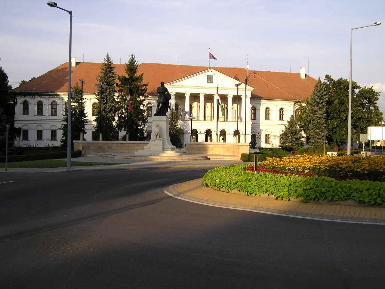 The town hall in Makó, Hungary. The building was the county seat of the former county Csanád.